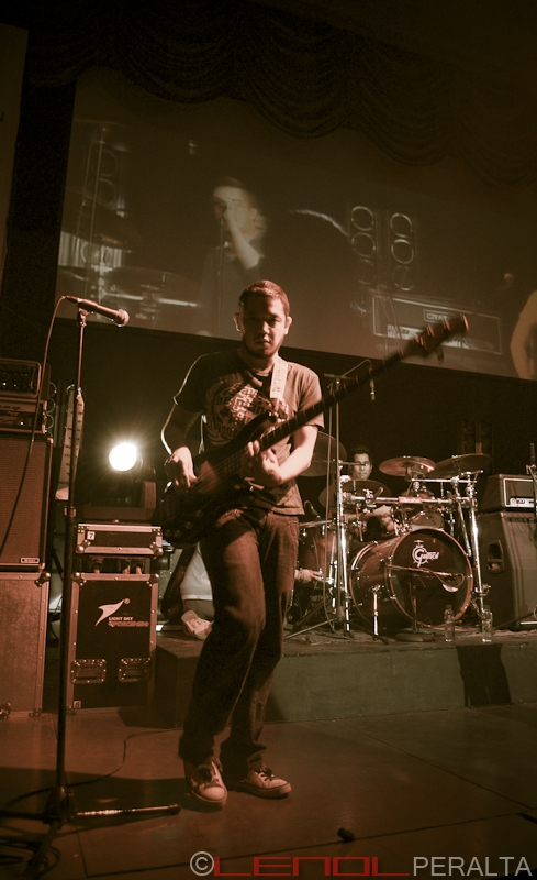 Band: Bamboo Event: Our company's site recognition Date: July 4, 2009 Location: CAP Convention Center, Baguio City